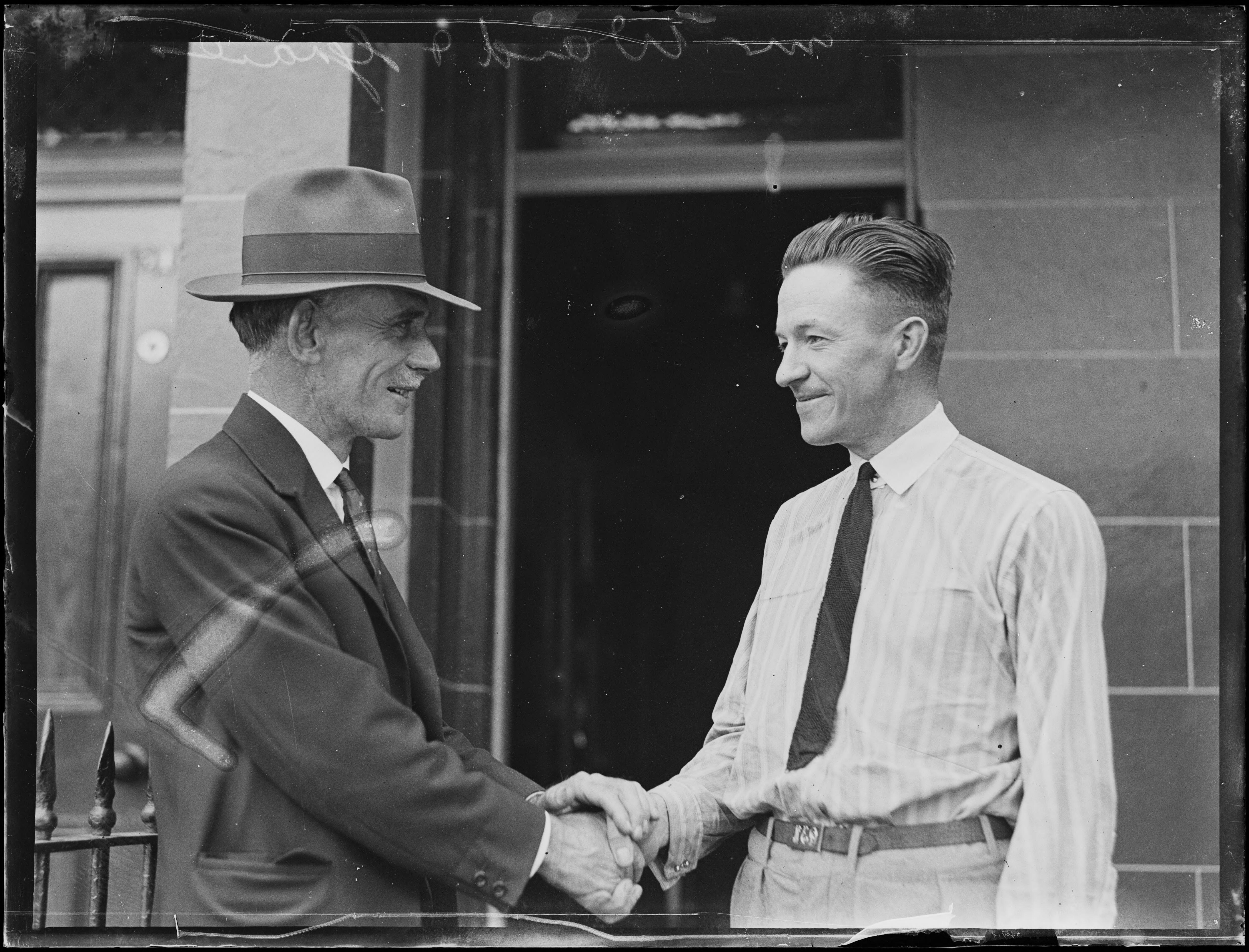 Australian politician Eddie Ward shaking hands with James Joseph Graves, state president of the Australian Labor Party, following his victory at the 1931 East Sydney by-election